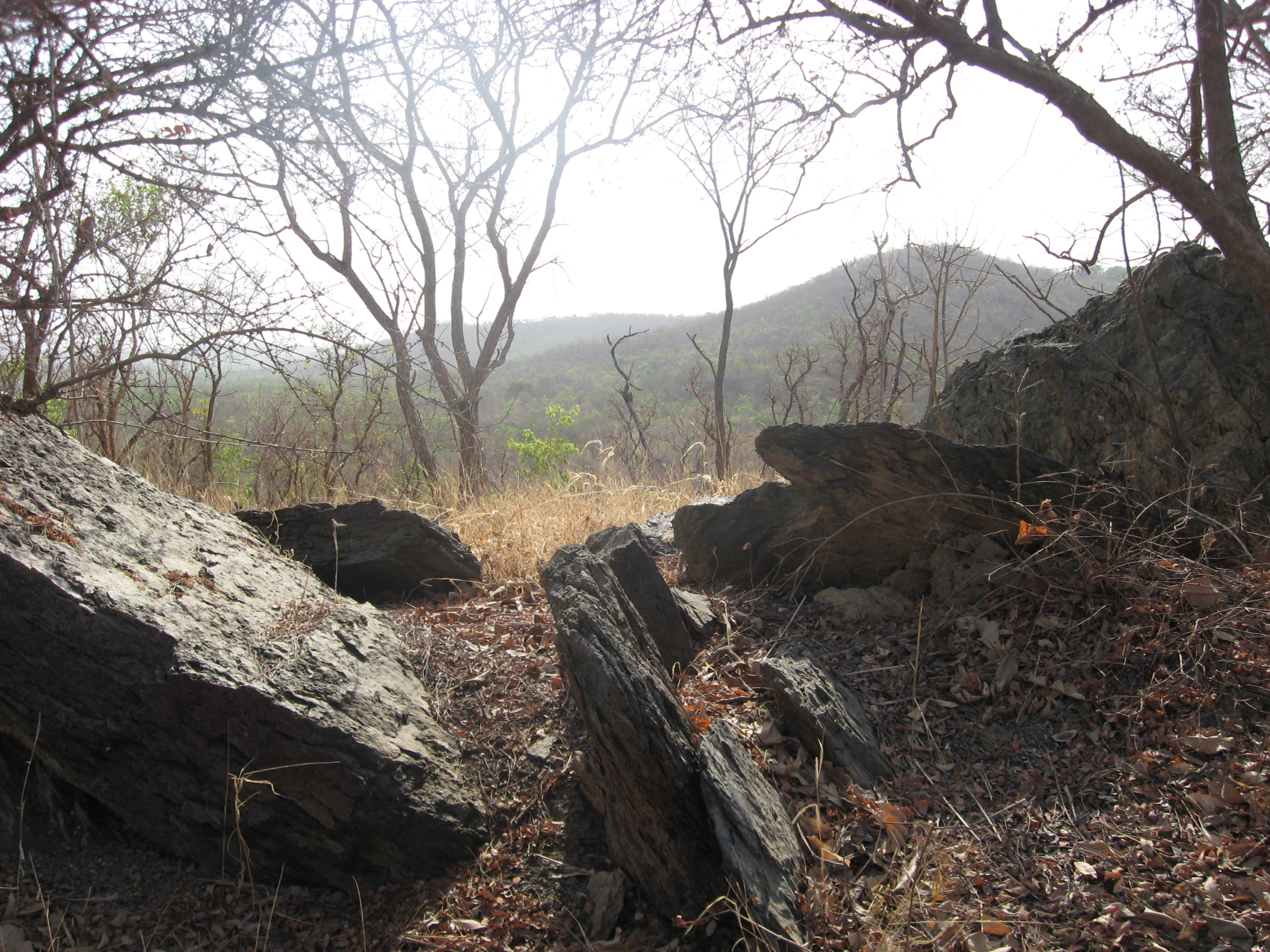 Rocks near Thiabedji (Eastern Senegal)